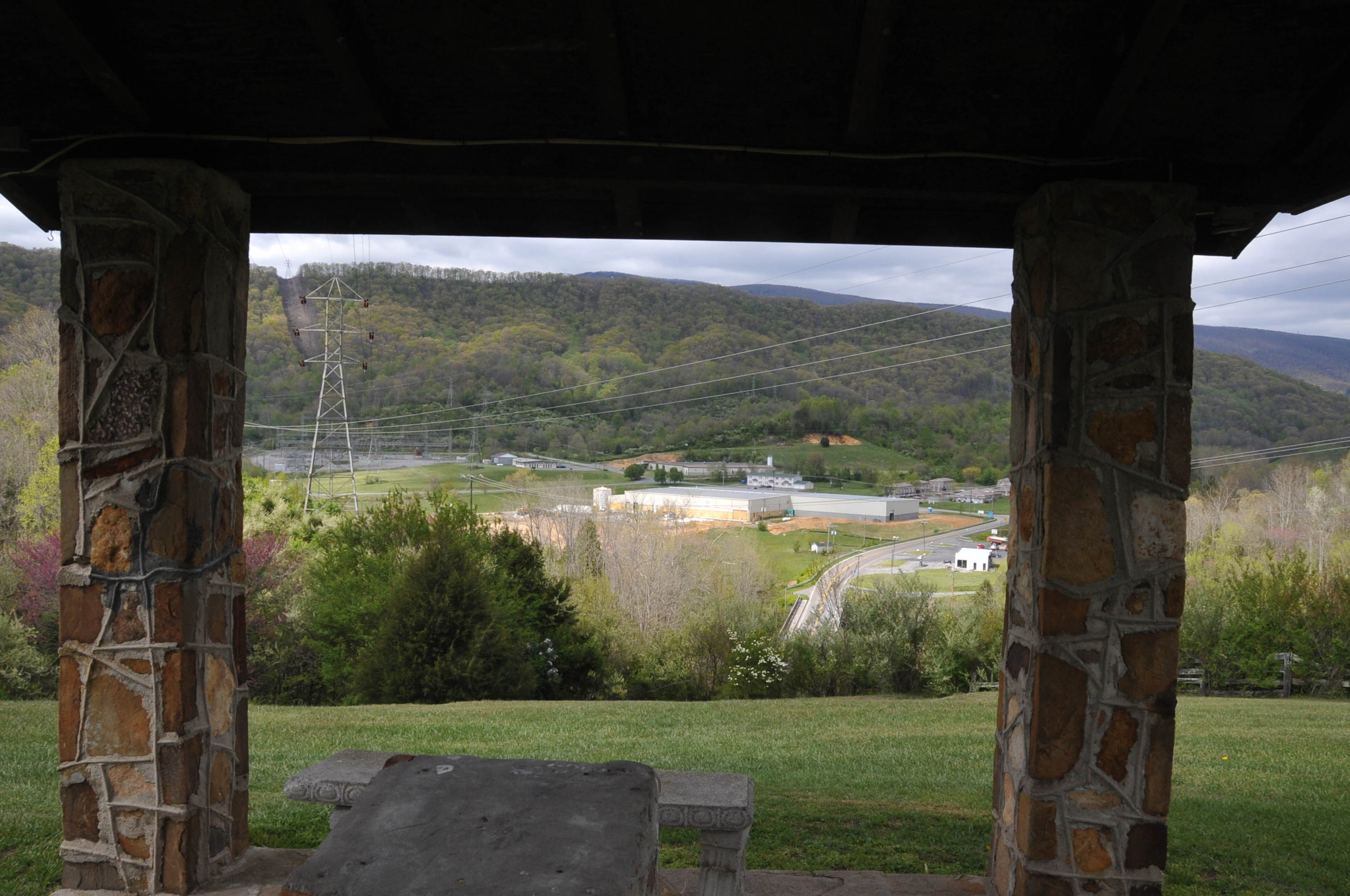 THIS OVERLOOK LOOKS DOWN ON A PORTION OF THE VALLEY WHERE A BATTLE WAS FOUGHT IN OCTOBER OF 1864 BY OVER 7000 SOLDIERS AS THE UNION ATTEMPTED TO DESTROY THE SALT WORKS. THEY WERE PARTIALLY SUCCESSFUL IN THEIR SECOND ATTEMPT